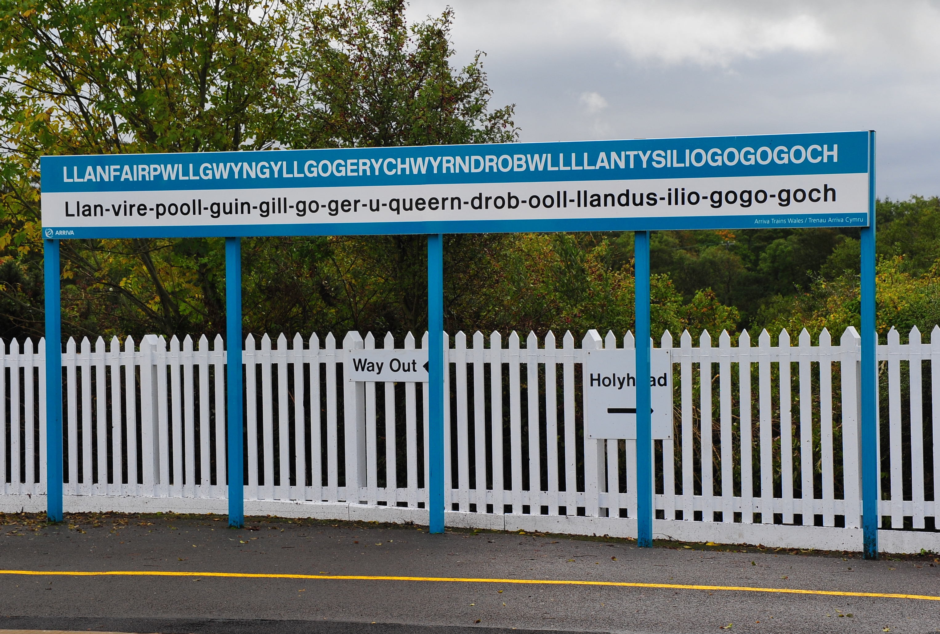 Llanfairpwllgwyngyllgogerychwyrndrobwllllantysiliogogogoch railway station sign, September 2011 livery